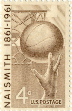 US stamp honoring James Naismith